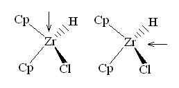 Two avenues in which Schwartz's reagent can be attacked.